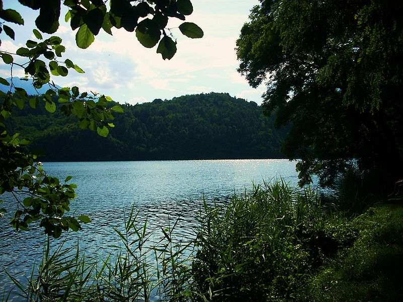 Lake of Levico, Province of Trento, Italy